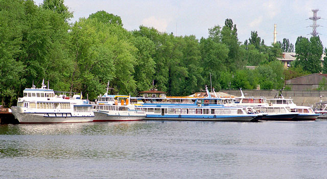 The recreation ships in Kiev in the backwater at Rybalskiy island (2004). Projects 81080, 1430, D-055, Types "Moskovskiy", "Aleksandr Grin", "Kashtan"